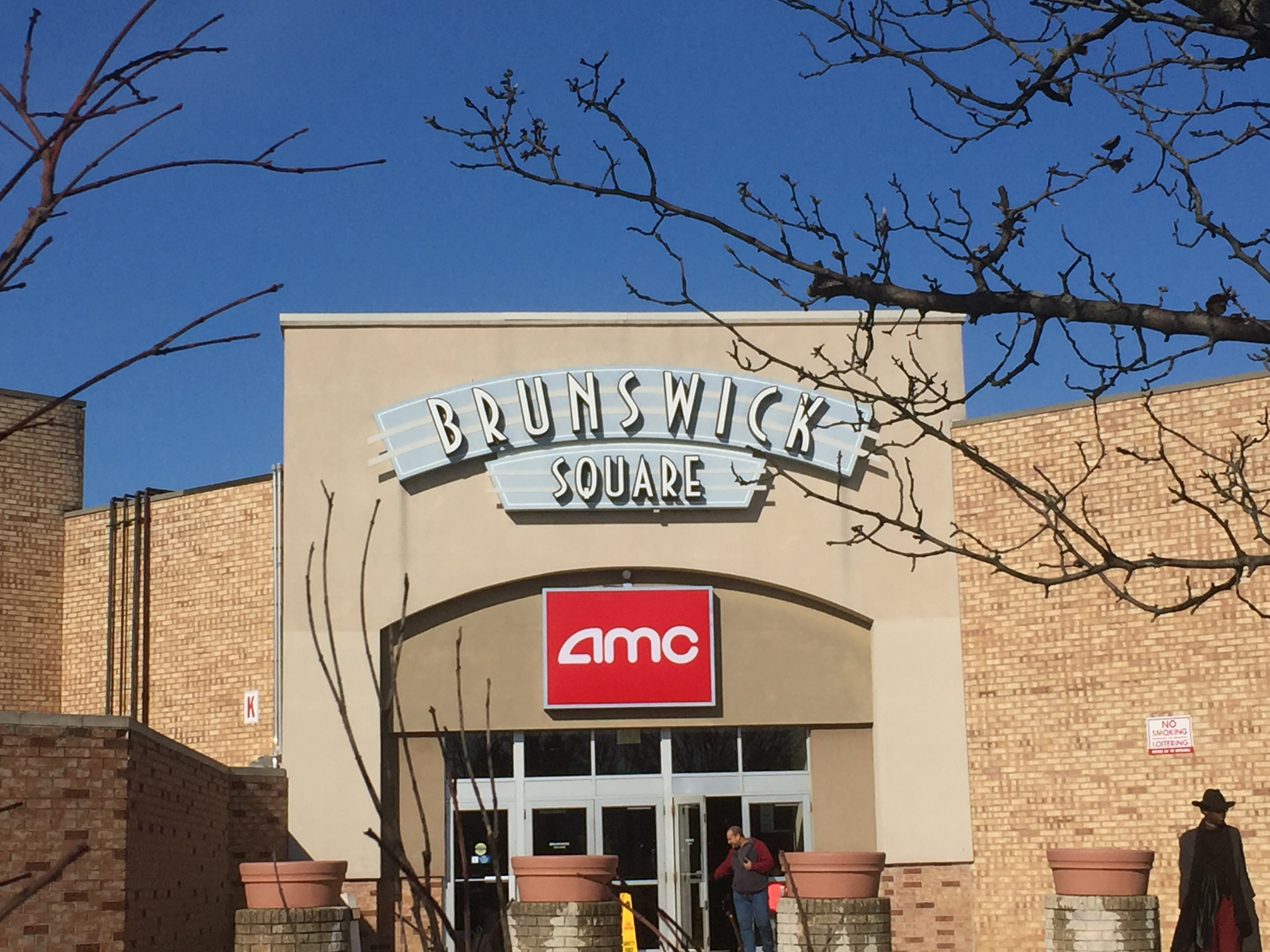 1 of 2 main entrances to the mall. It is near the back. This entrance is besides the movie theater and Macy's.